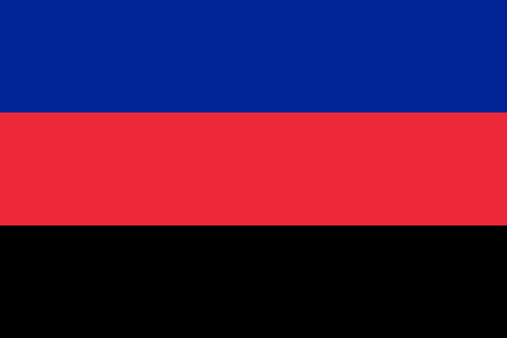 Banner of the Carboneria. A secret society in Italy during the 19th century.